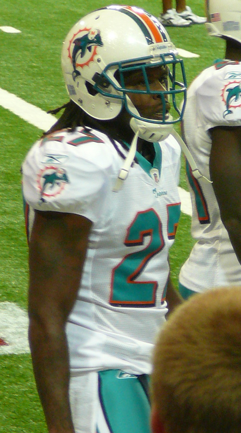 If used somewhere other than Wikipedia, Nelson, by name.